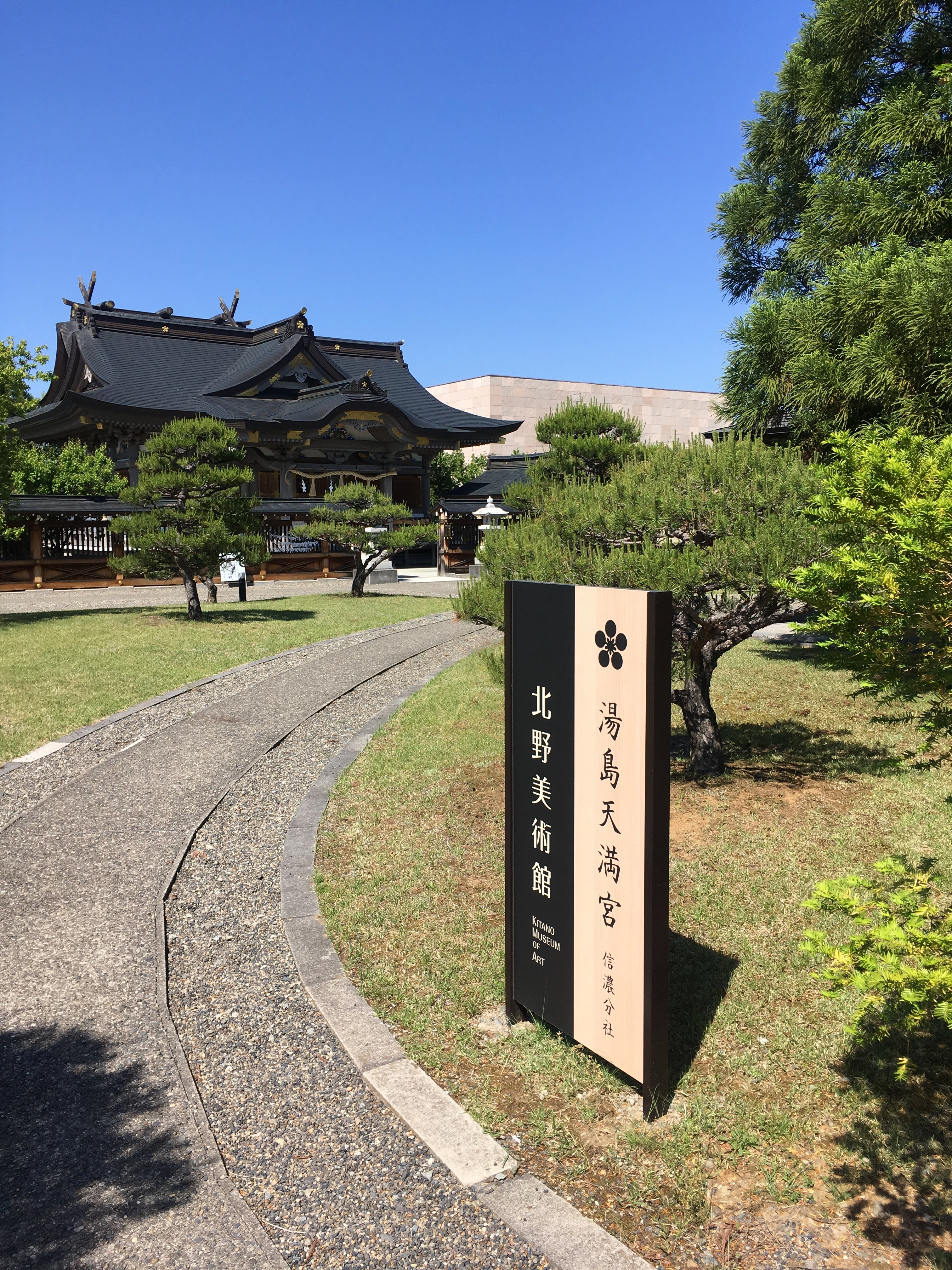 This is a photo of the entrance to Yushimatenmangu Shrine and Kitano Art Museum in the Wakahowatauchi district of Nagano (city).